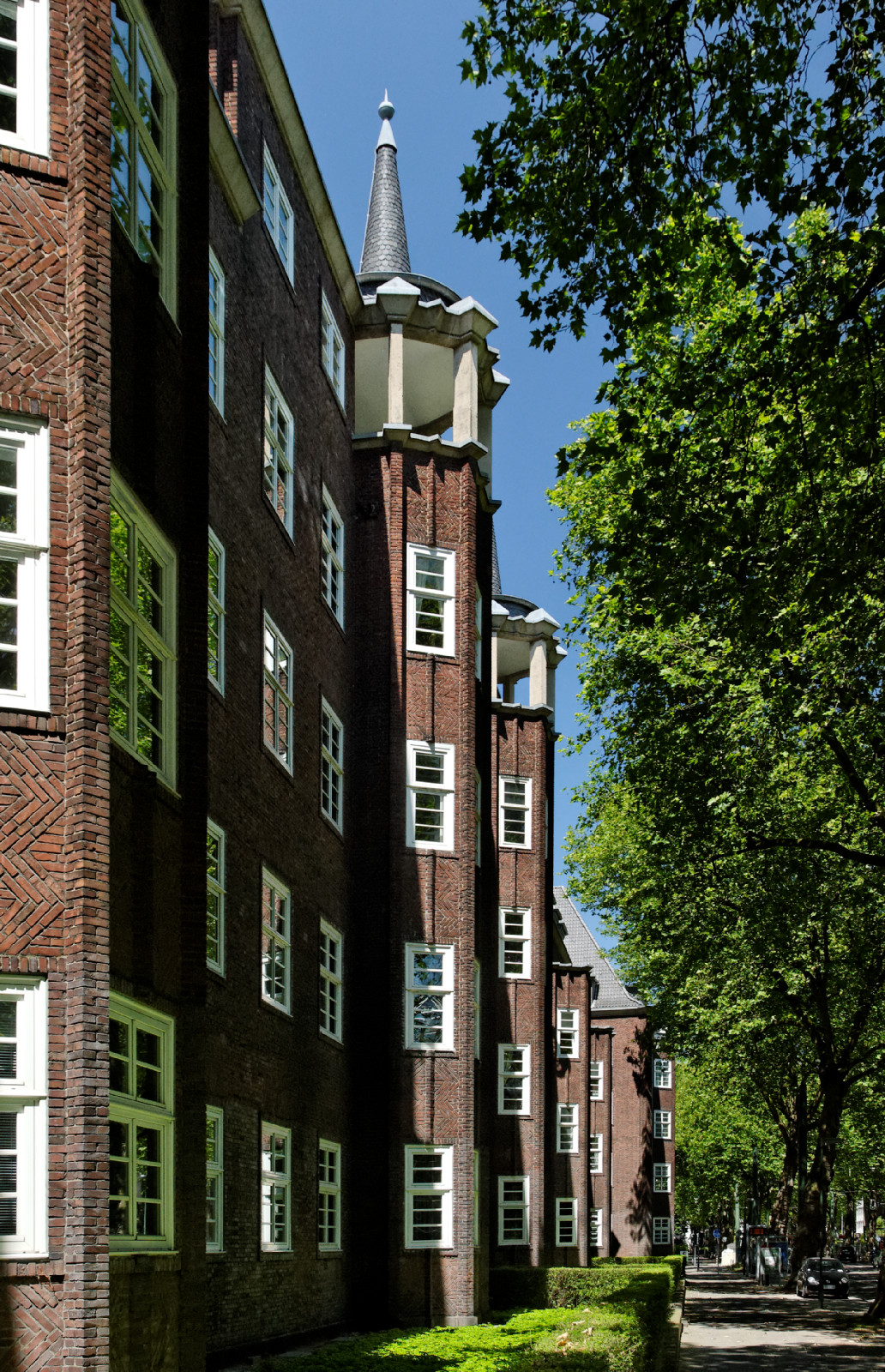 Houses Kaiserswerther Straße 160 bis 166 in Düsseldorf-Golzheim, Germany